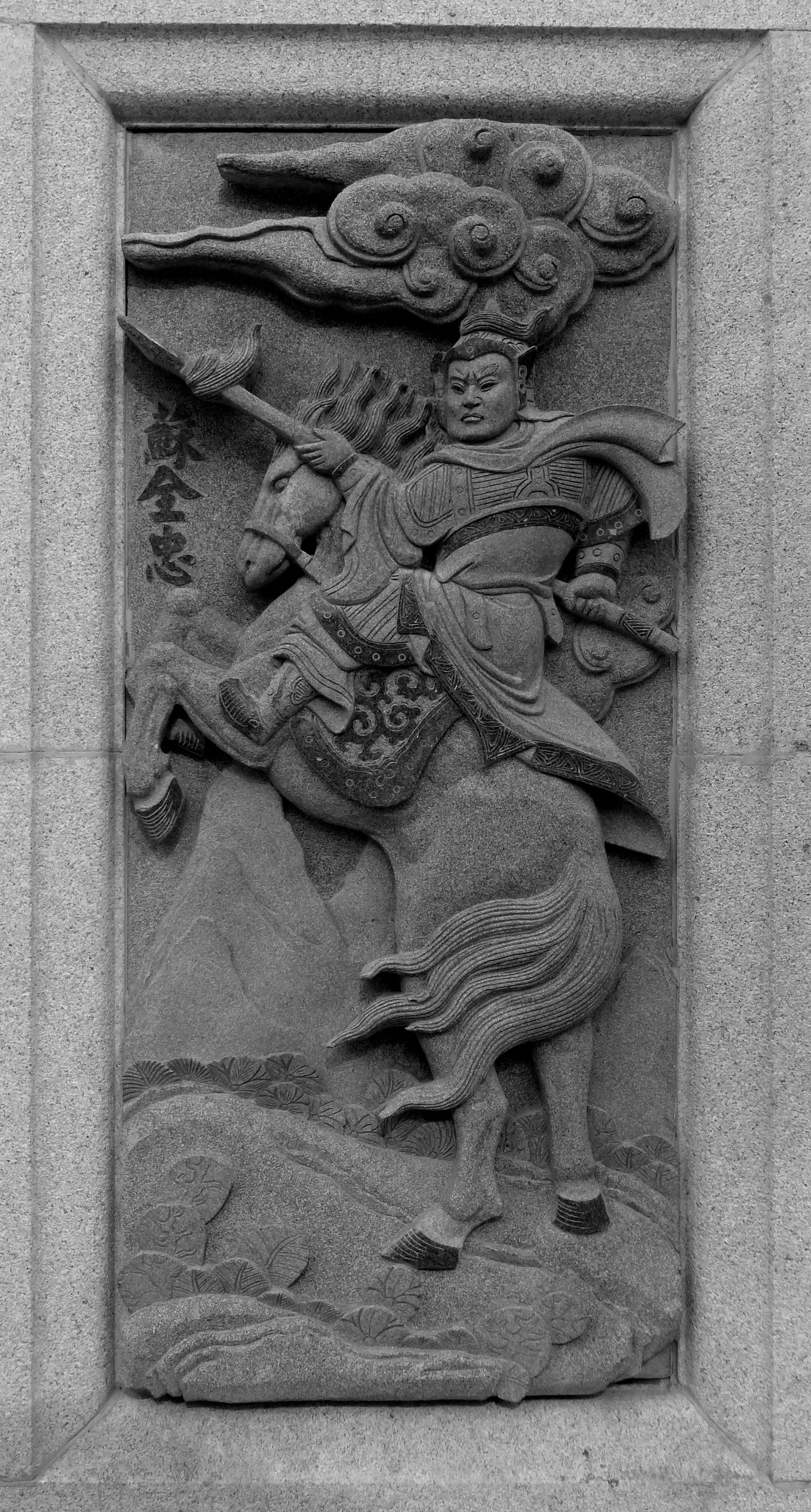 097 Su Quan Zhong, Investiture of the Gods at Ping Sien Si, Pasir Panjang, Perak, Malaysia Photograph from the Ping Sien Si Temple in Perak, Malaysia taken by Anandajoti.